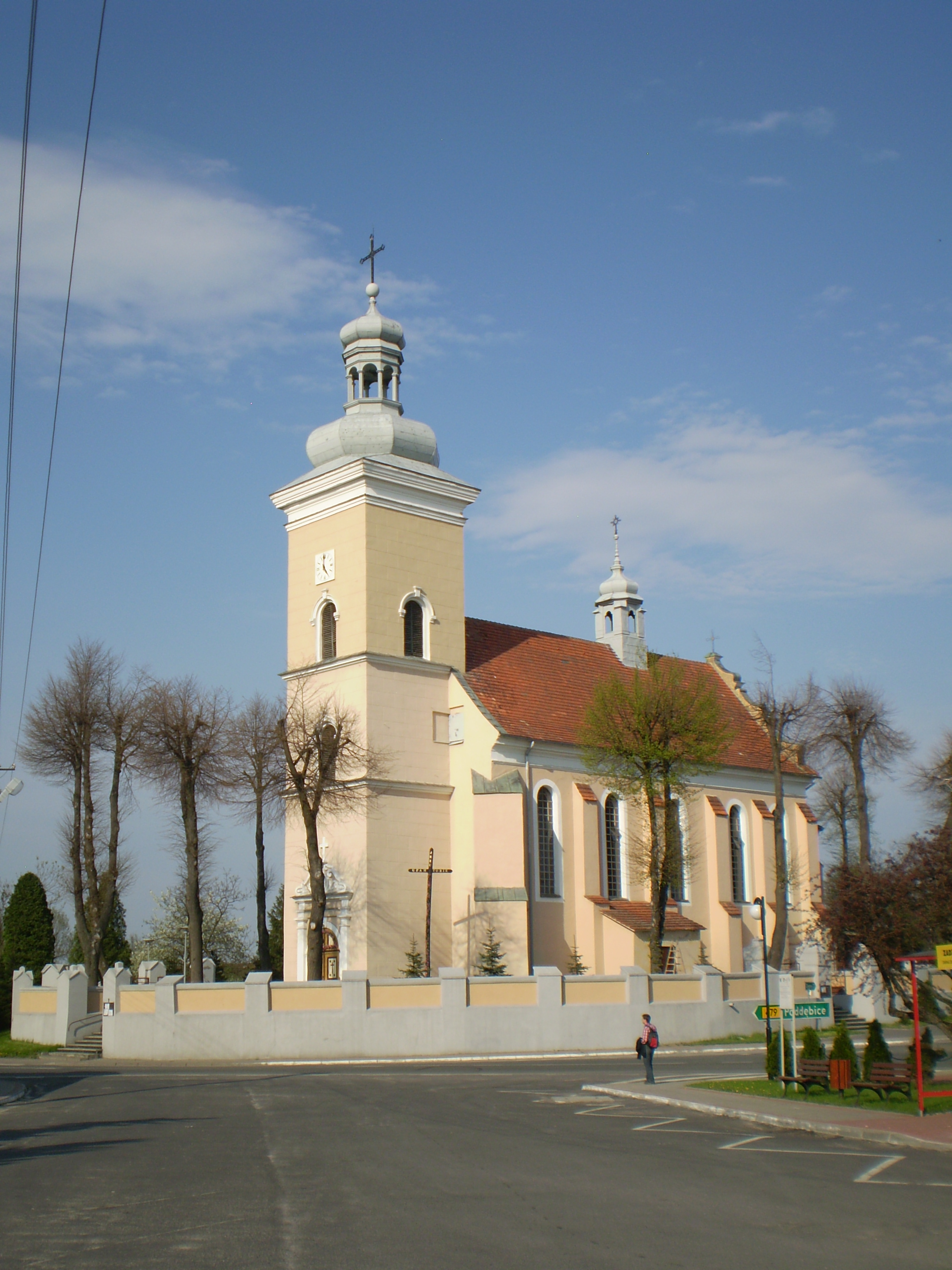 Kościół św. Małgorzaty w Zadzimiu